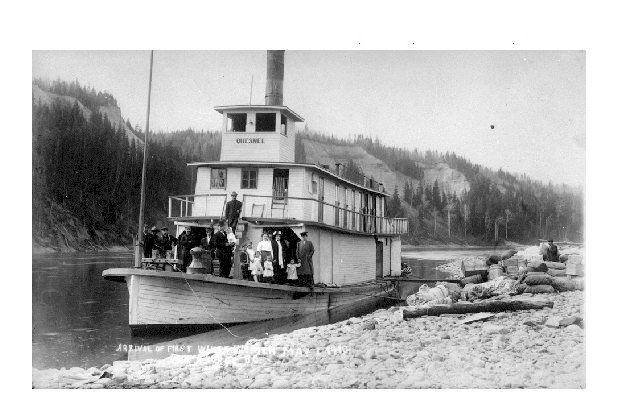 The S.S. Quesnel, best known for transporting the first white women to Fort George, British Columbia on 1 May 1910. This photo records that event. British Columbia archives #B-00307. The women and children are standing to right of boat on deck.